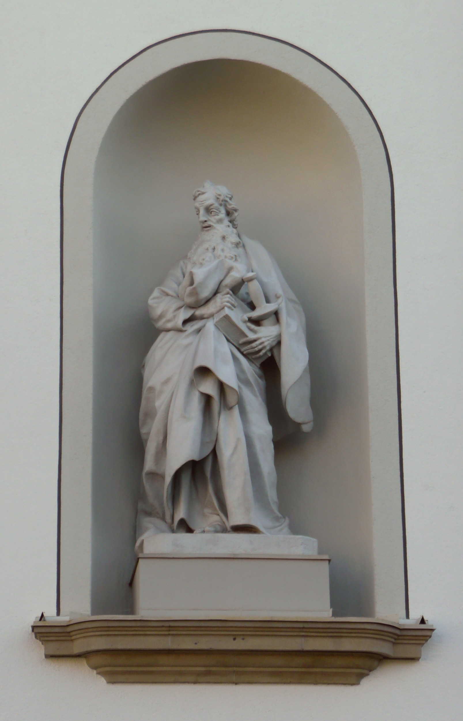 Statue of Saint Paul on the Wall of the Abbey of St. Gall